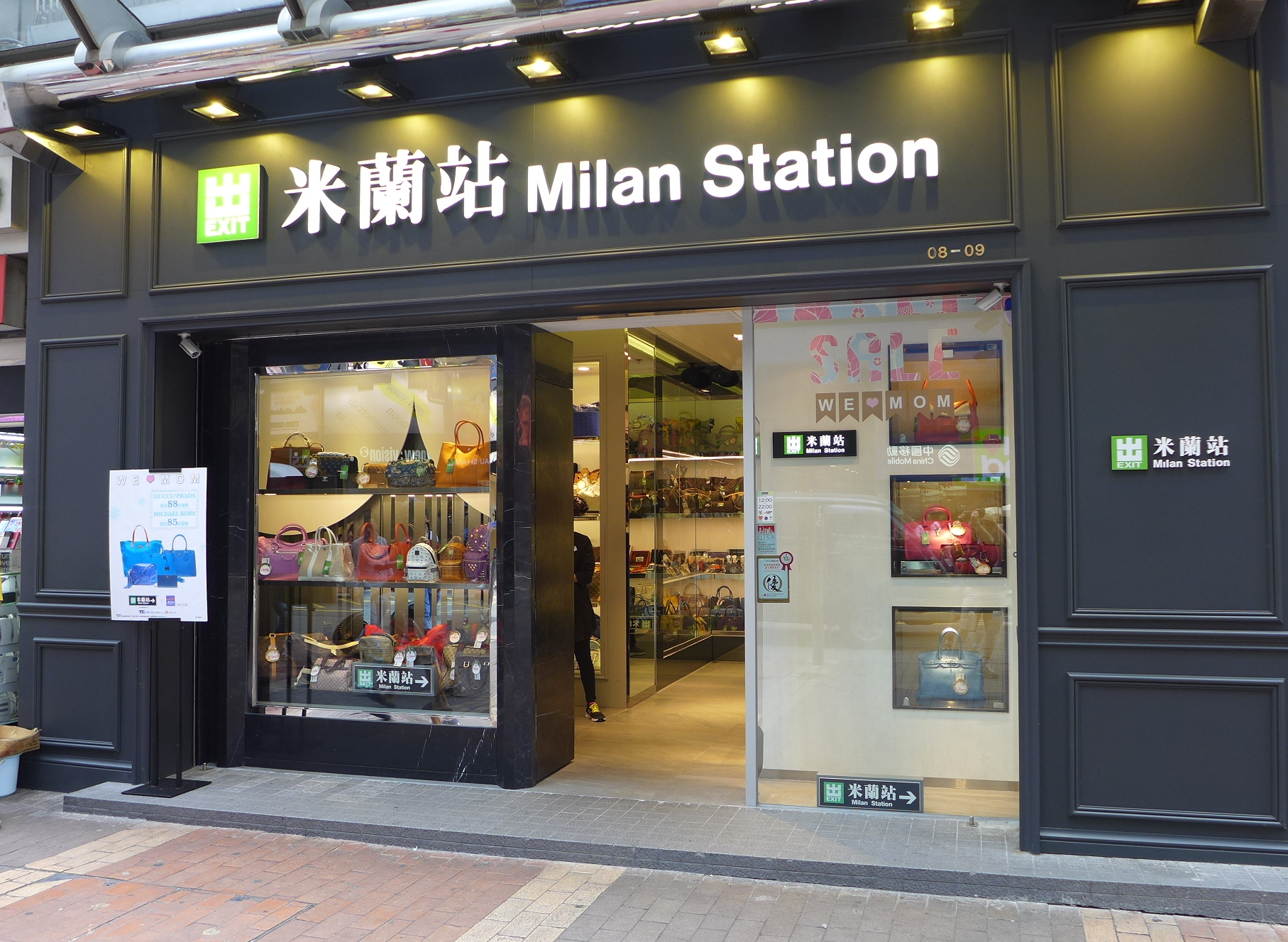 Milan Station